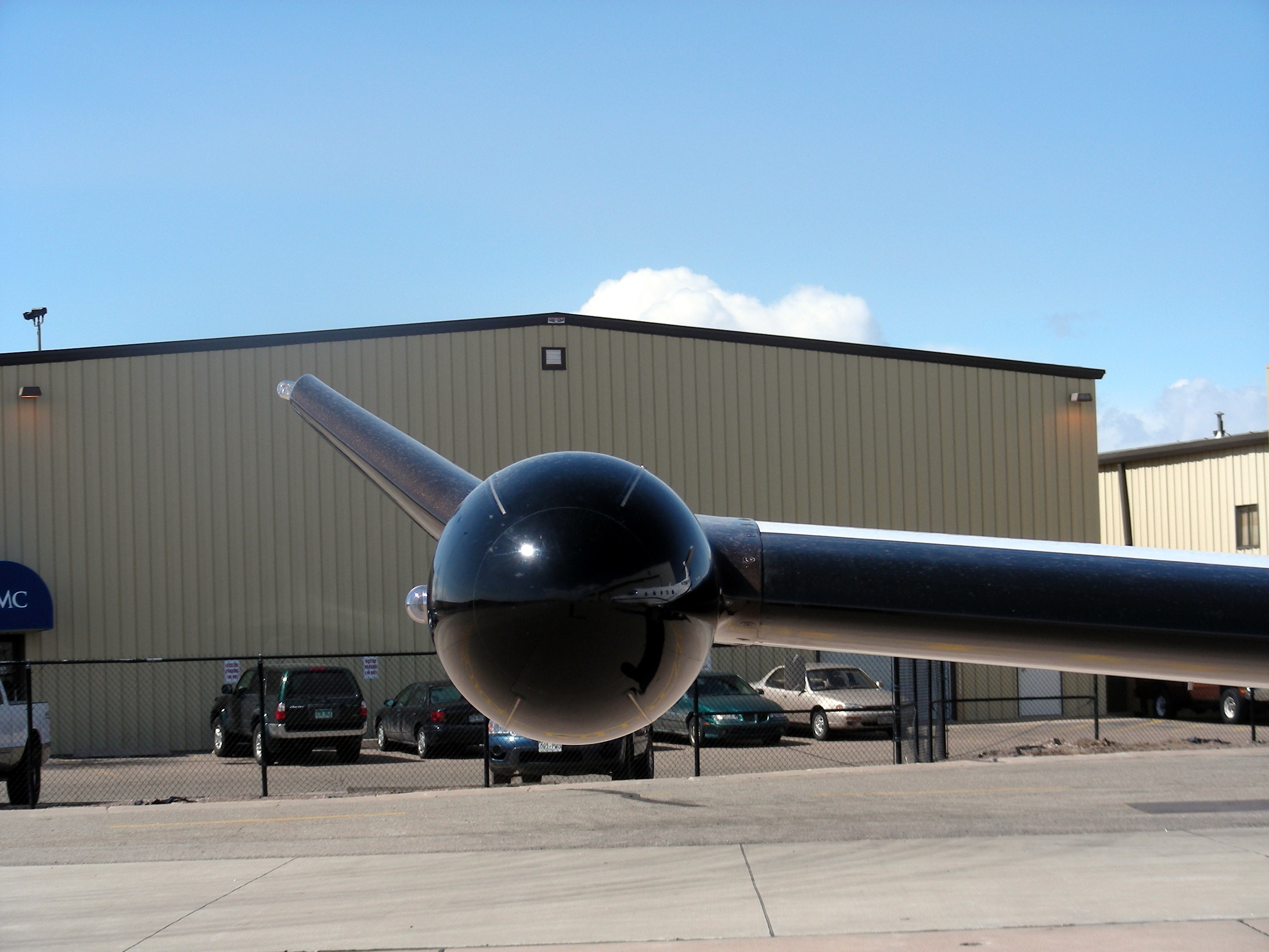 Weather radar on the Pilatus PC-12 Airplane